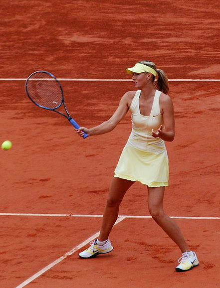 Maria Sharapova in her 2nd round match with Caroline Garcia at Roland Garros 2011. She won 3-6, 6-4, 6-0. (cropped)